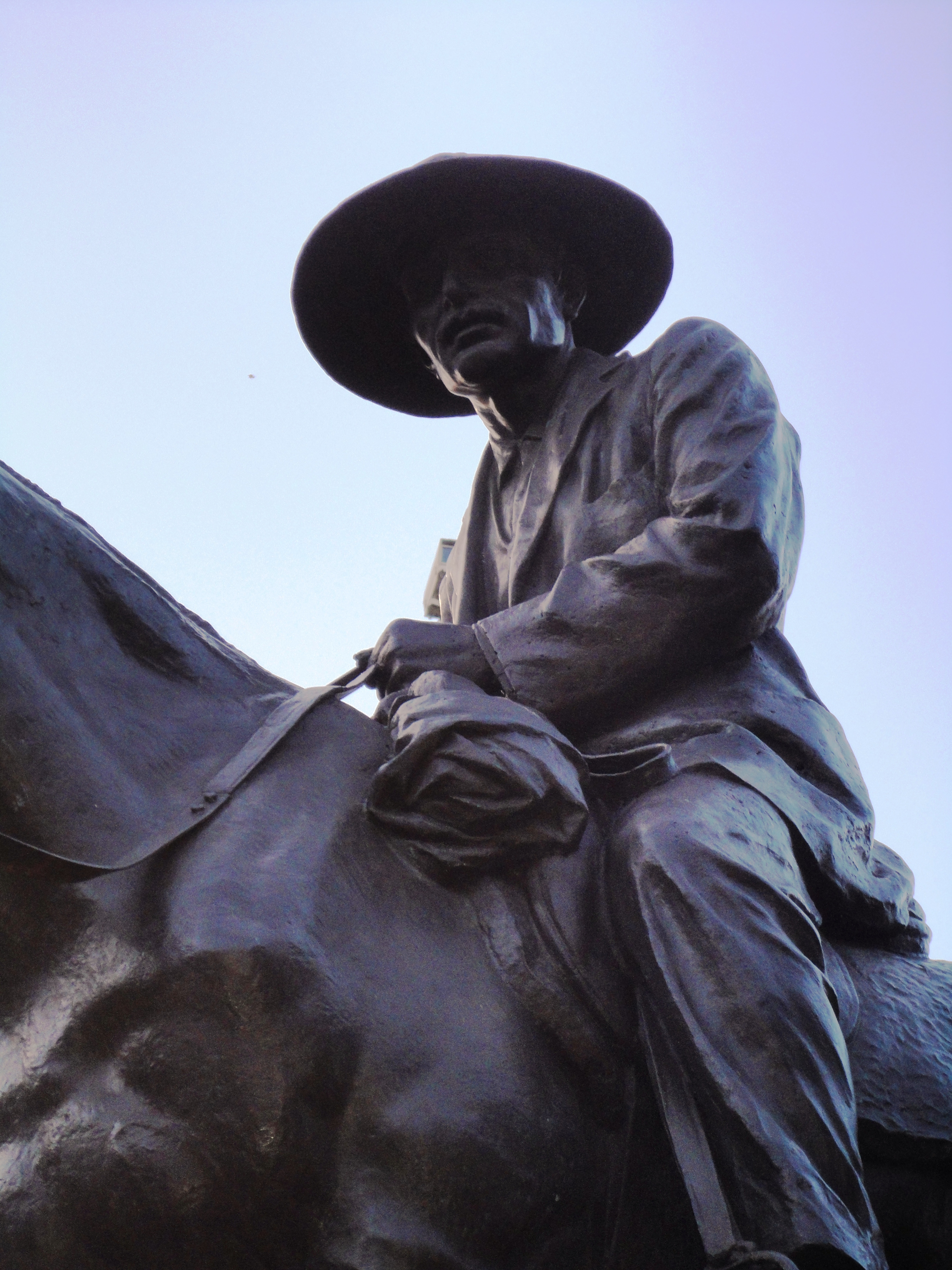 Equestrian statue of Dick King on the north shore of Durban bay